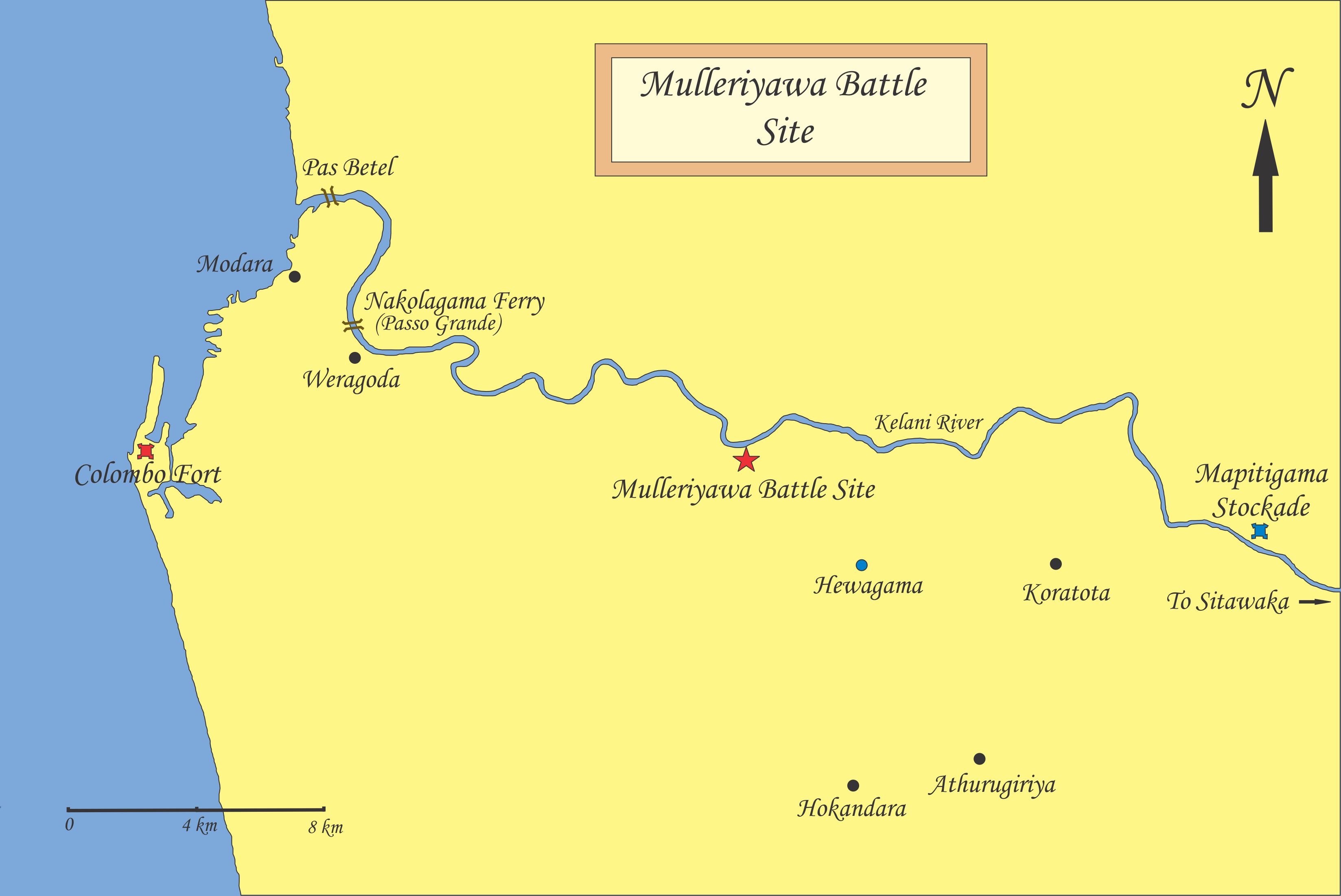 Shows the Mulleriyawa Battle site in relation to the Kelani River, with other important land marks.